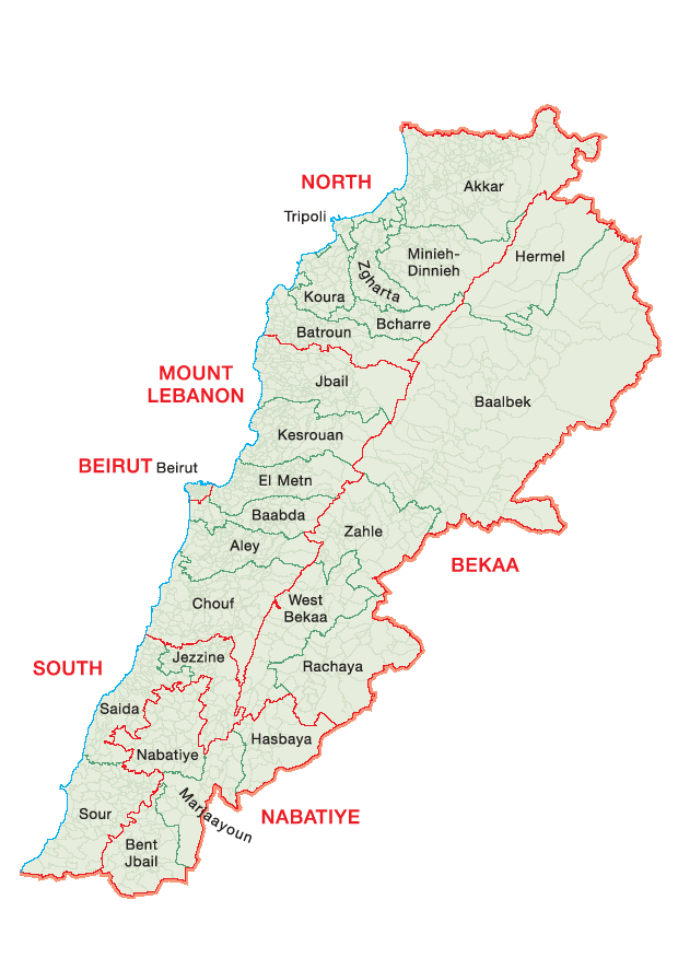 Map of Lebanon, its districts and major cities.